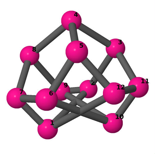 One of 85 simple cubic graphs with 12 vertices.